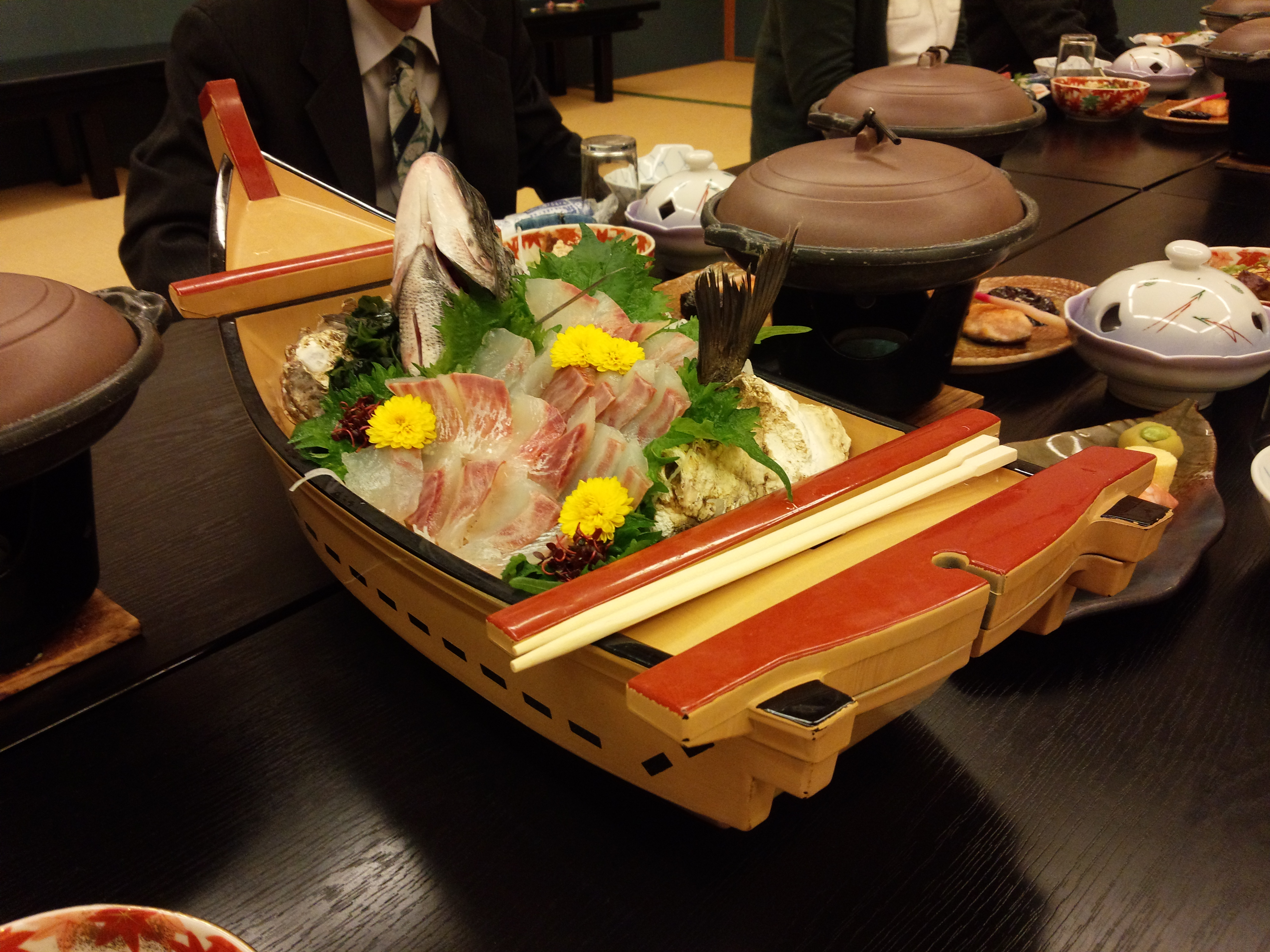 Funamori (舟盛り), boat-wrap sashimi